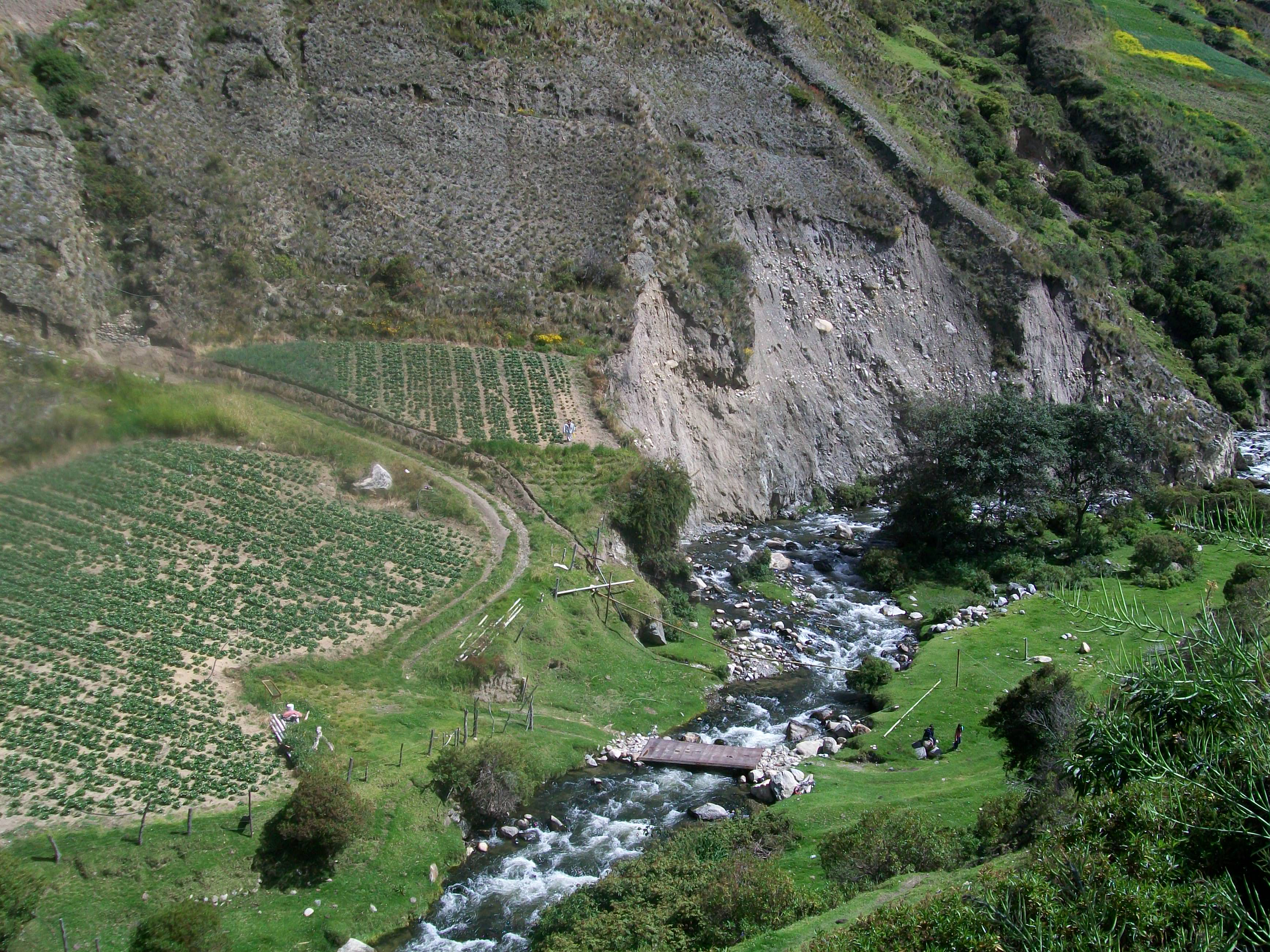 Chama River accross the road from the Stone Church in San Rafael de Mucuchíes, on the slopes of the Cordillera de Mérida, Venezuela